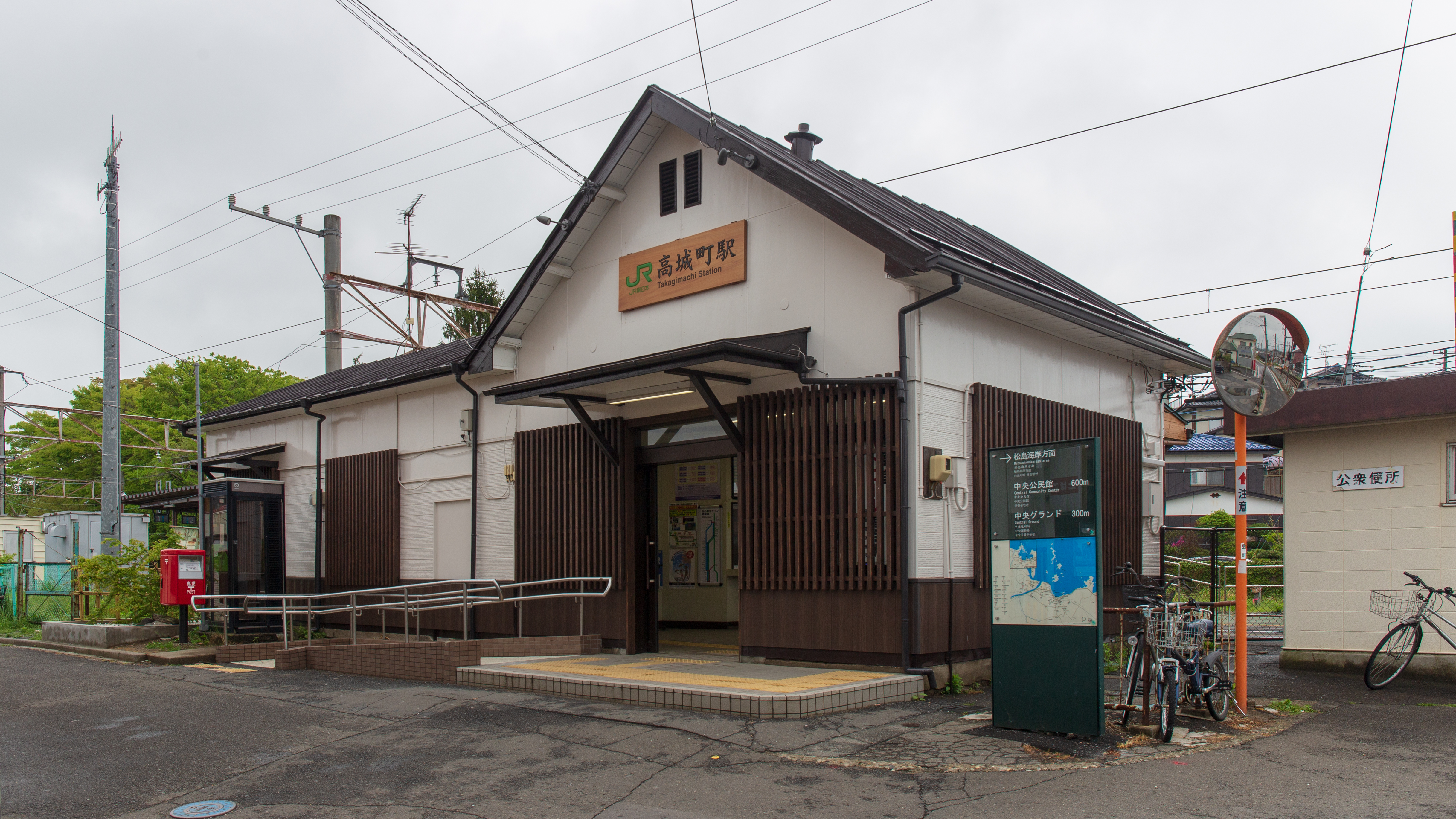 Takagimachi Station on the East Japan Railway Company (JR East) Senseki Line in Matsushima Town, Miyagi Prefecture, Japan